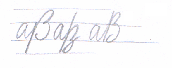 The word aß, German for '(I/he/she/it) ate', demonstrates some handwritten ducti of "ß". The first is the most common, the second somewhat old-style, and the third less common.